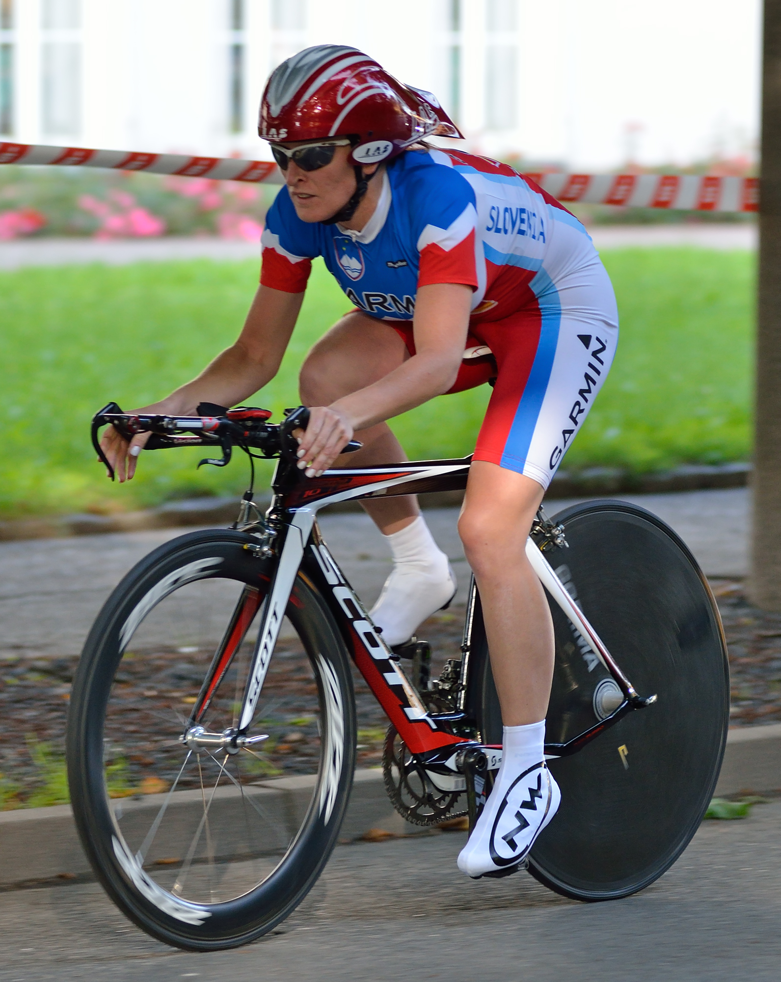 Tjasa Rutar from the National Team Slovenia during the Women's Tour of Thuringia 2012 in Zwickau, Germany.